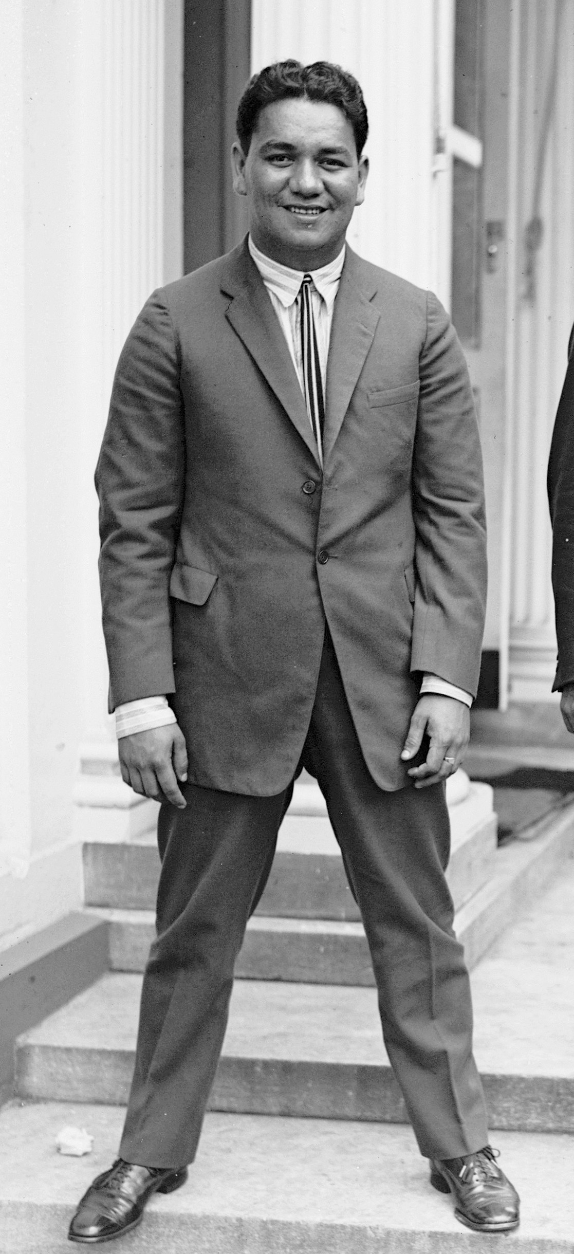 Warren Kealoha, Hawaiian swimmer at the White House.